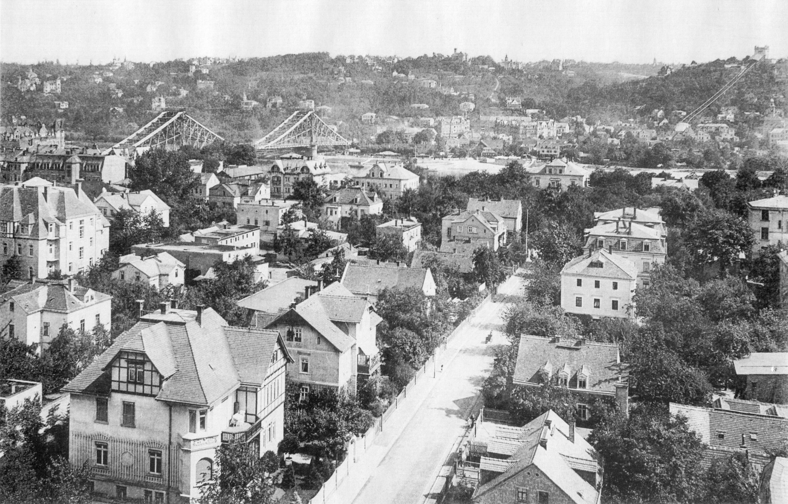 Dresden (Saxony, Germany) - View over Blasewitz and Loschwitz